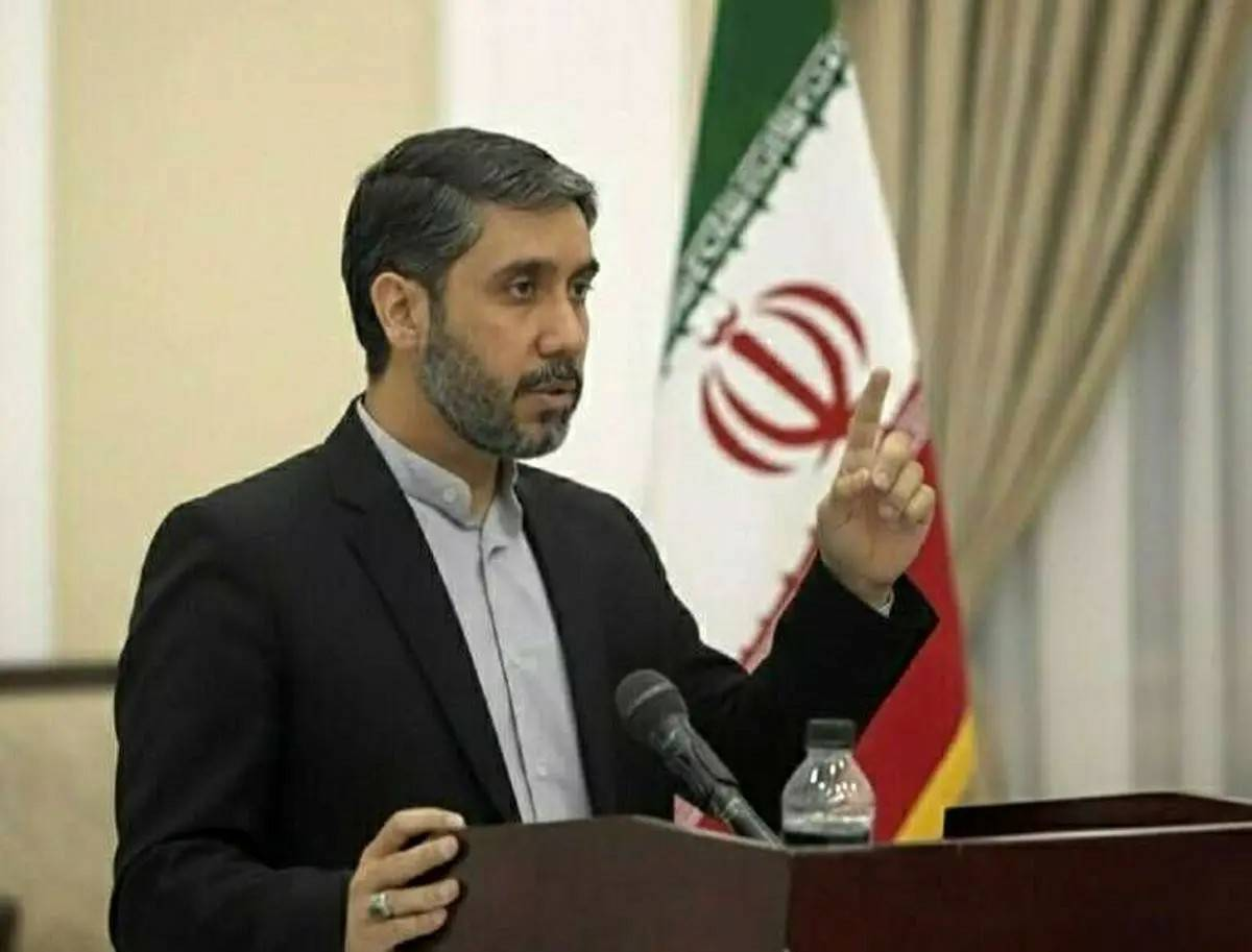 mohammadalikhani.ir